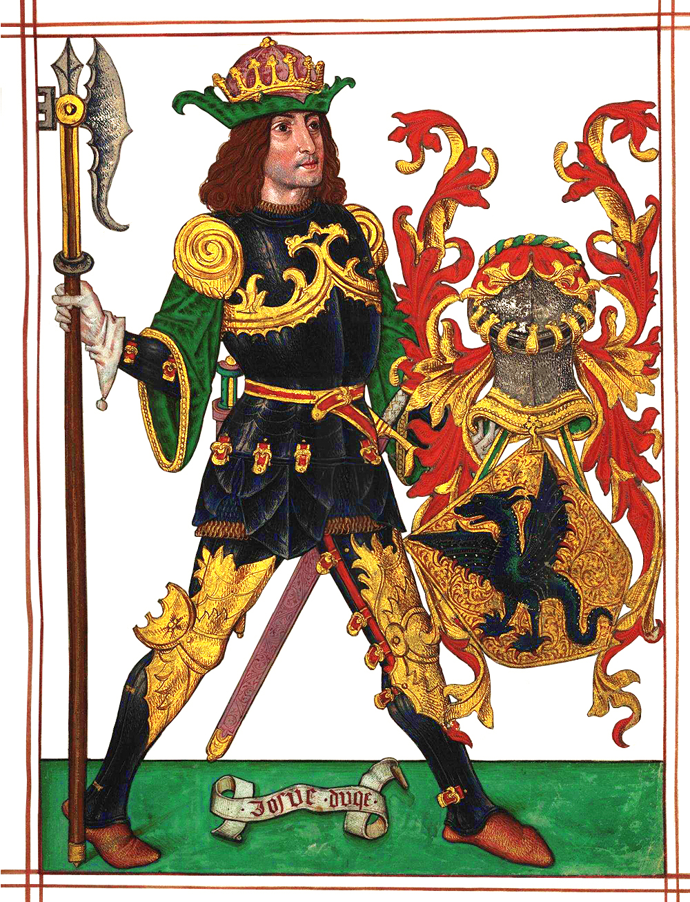 Joshua